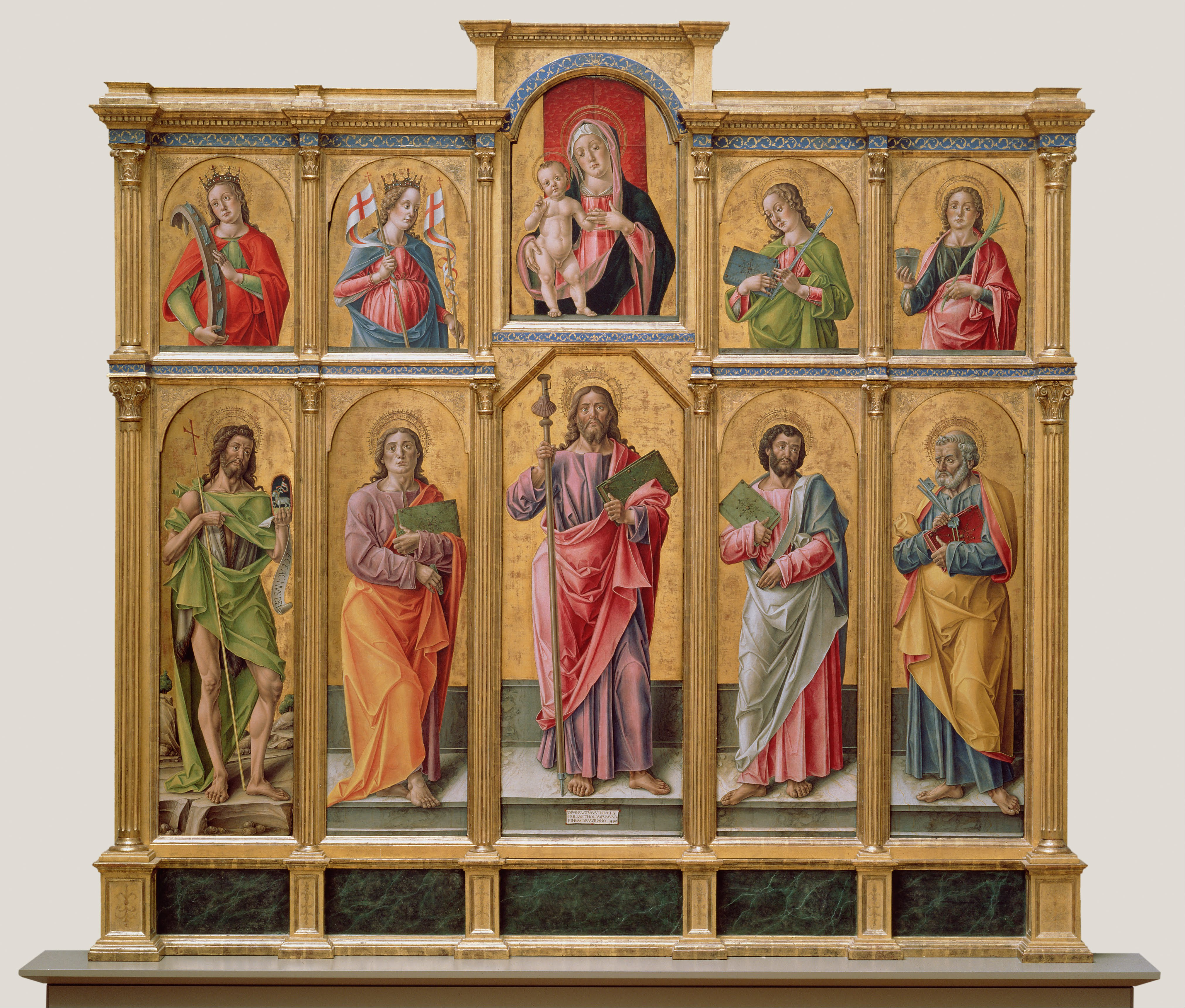 Christ Child, Saint Apollonia, Saint Catherine of Alexandria, Saint Lucy, Saint Mary Magdalene, Saint Ursula, Lamb of God, Saint Bartholomew, James, Saint John the Baptist, Saint Peter, Madonna and Child, Saint John the Evangelist